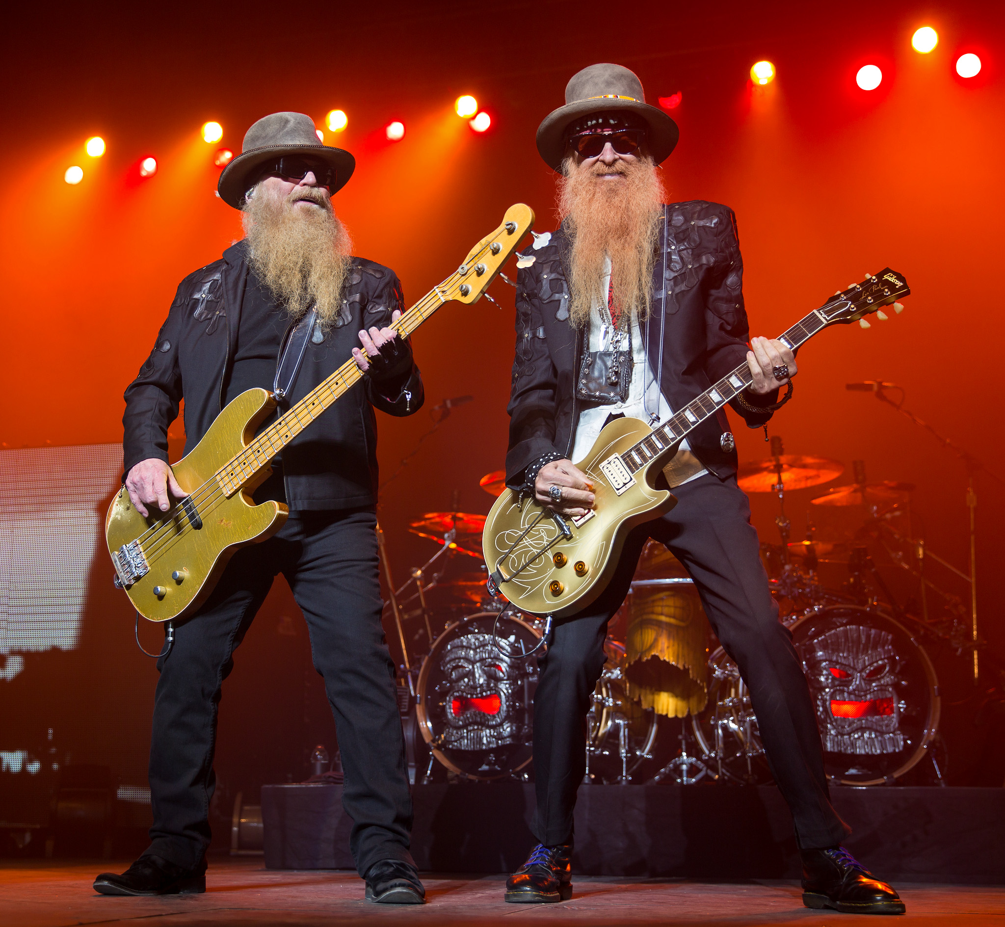 ZZ Top performing in San Antonio, Texas 2015-01-18.